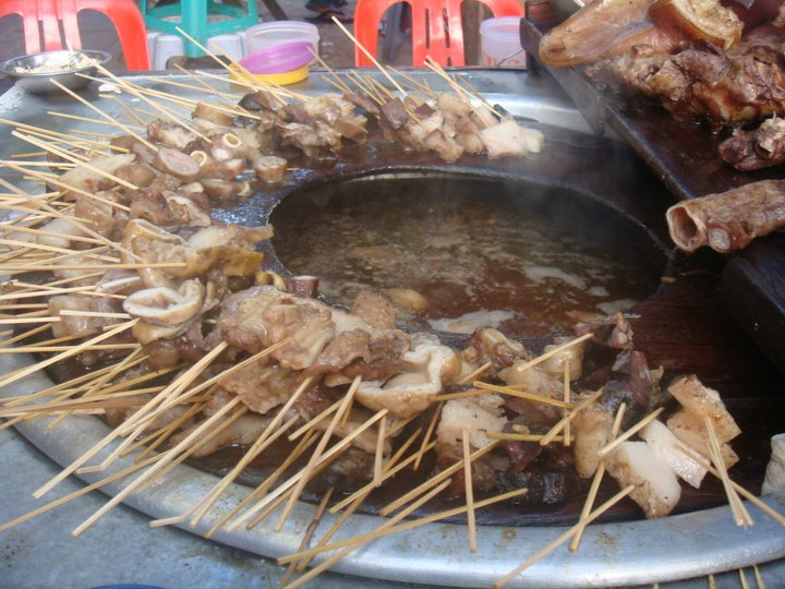 Pork on Stick is a famous street food in Myanmar. Different organs of pork are boiled, cut and put on stick.မြန်မာဘာသာ: ဝက်သားတုတ်ထိုး